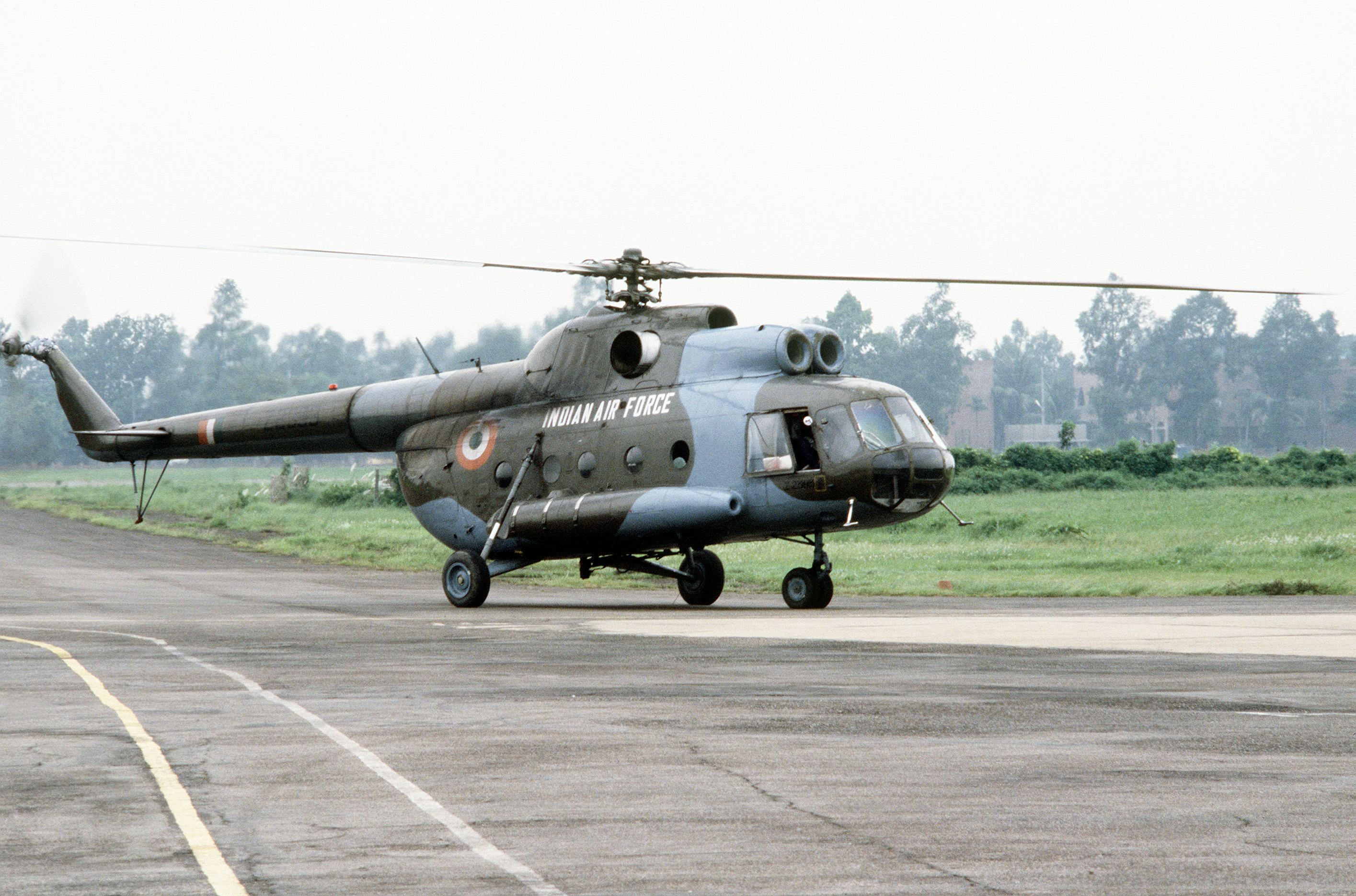 An Indian air force Mi-8 Hip helicopter rolls along a taxiway at an airport in Bangladesh. Indian, the U.S. and nations are sending aid to Bangladesh in response to the severe flooding in that country.